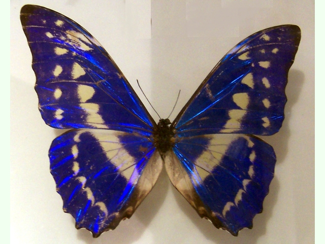 Morpho cypris, male